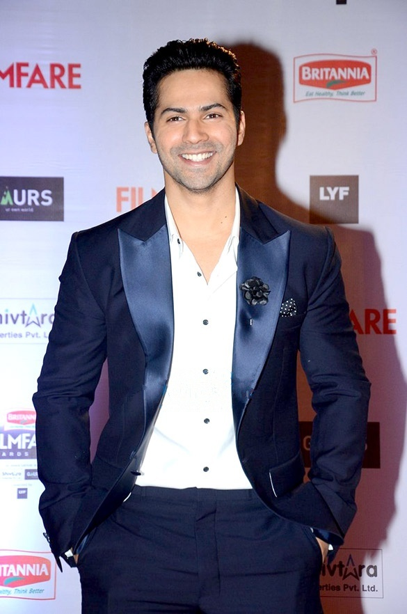 Varun Dhawan at filmfare awards.